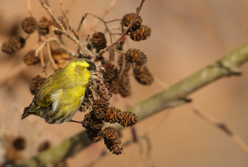 Carduelis spinus - male, Chomoutov, Morava river, CZ